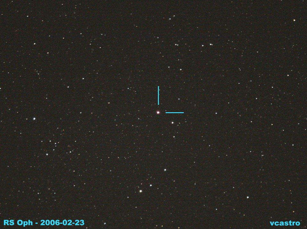 Recurrent nova RS Ophiuchi as seen 23 FEB 2006 from Mt Laguna, Calif. 30sec @ f/2.8 @ ISO 1600, Canon 20D, 400mm f/2.8 on Meade LXD55. Paul Martinez & Philip Brents, [1].